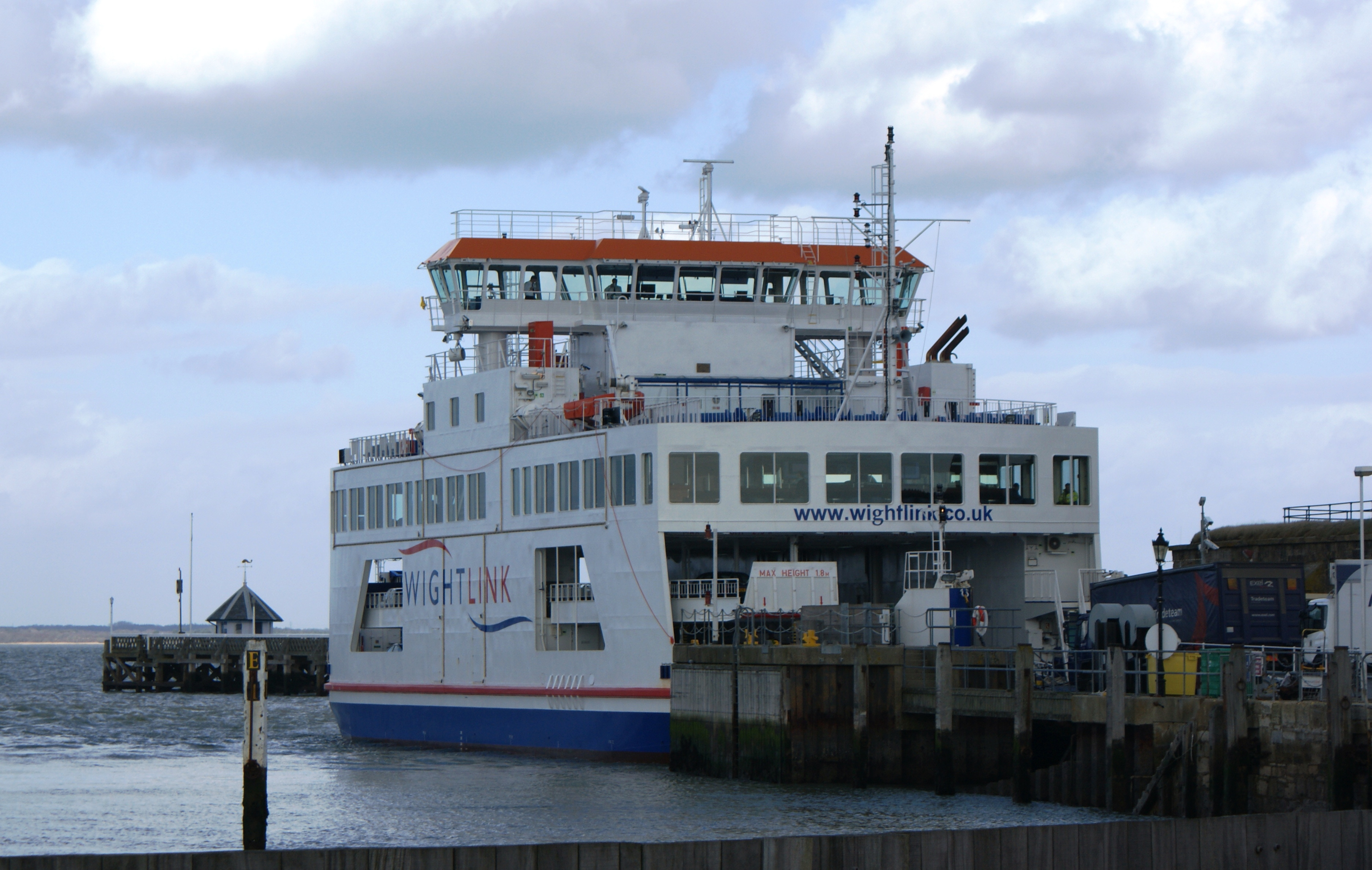 Wight Sky at the Yarmouth ferry terminal on the Isle of Wight.